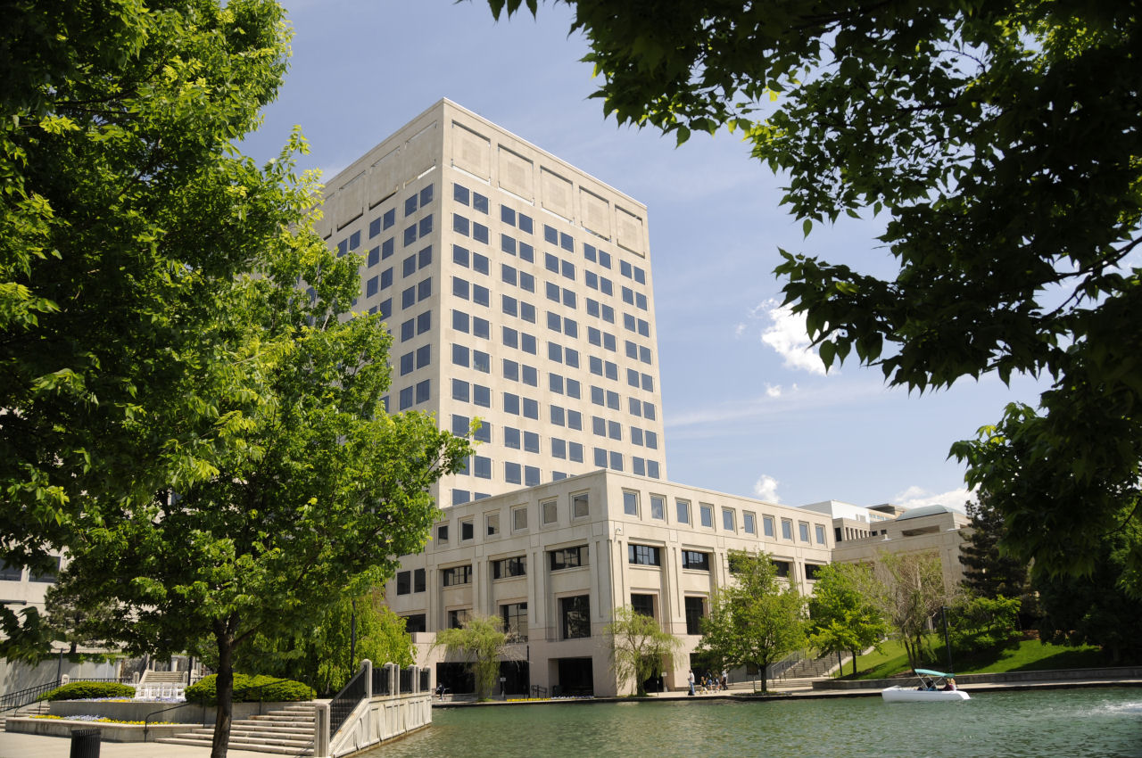 Government Building.